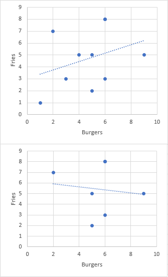 An illustration of Berkson's Paradox. The top graph represents the actual distribution, in which a positive correlation between quality of burgers and fries is observed. However, an individual who does not eat at any location where both are bad observes only the distribution on the bottom graph, which appears to show a negative correlation.